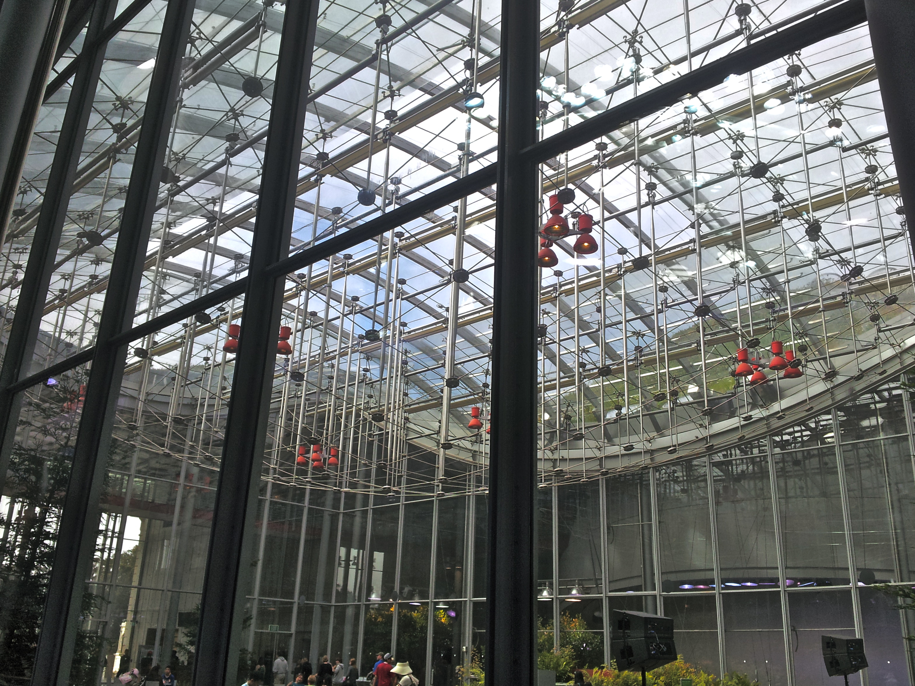 Piazza behind the Main Entrance of the California Academy of Sciences, rear left view facing west